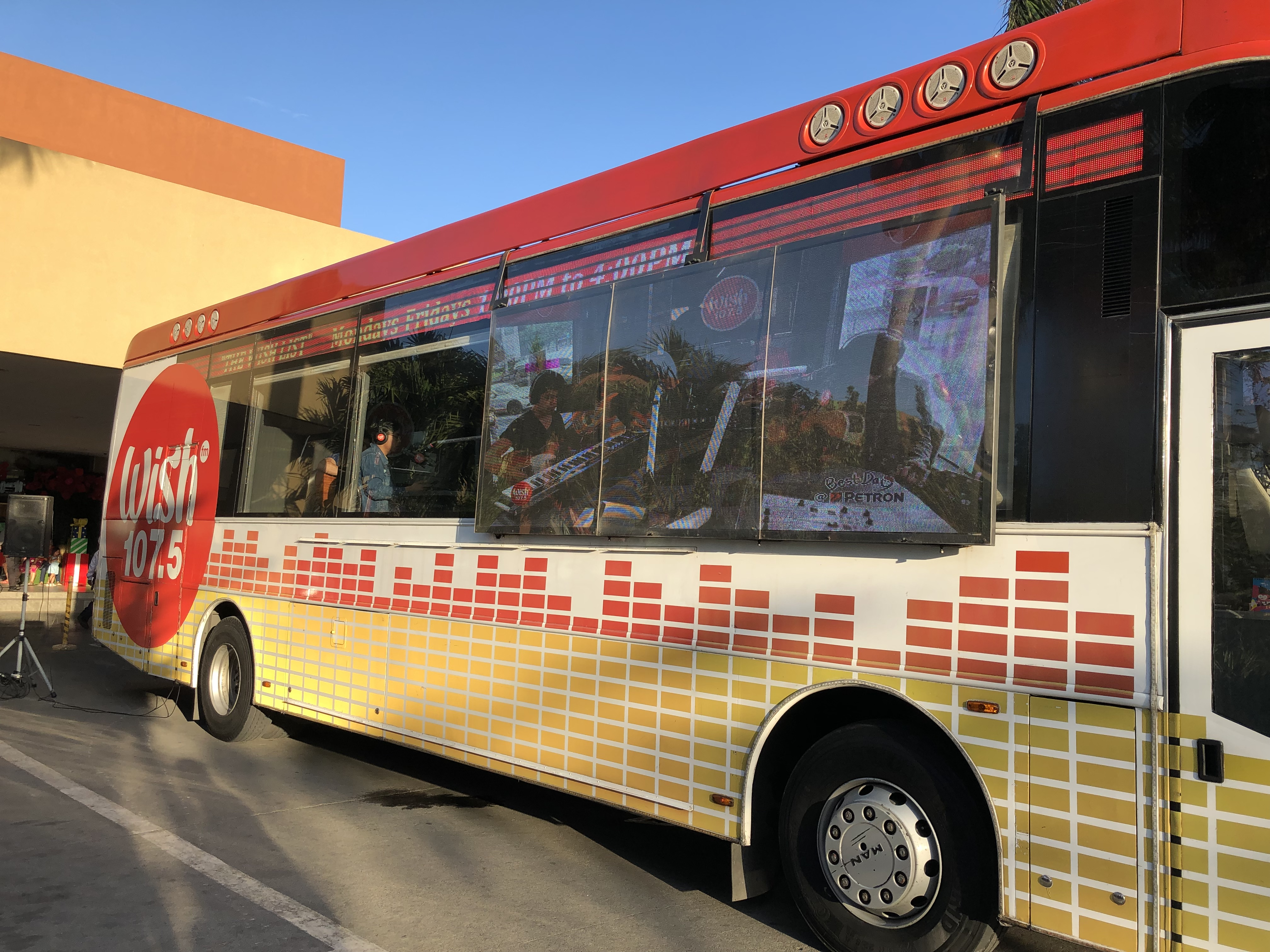 Wish 107.5 Bus parked at CSI Mall Lucao, Dagupan City, Pangasinan, Philippines